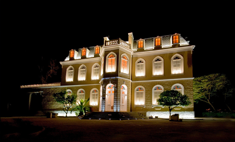 Palace of Montenegrin ruler King Nikola at night.